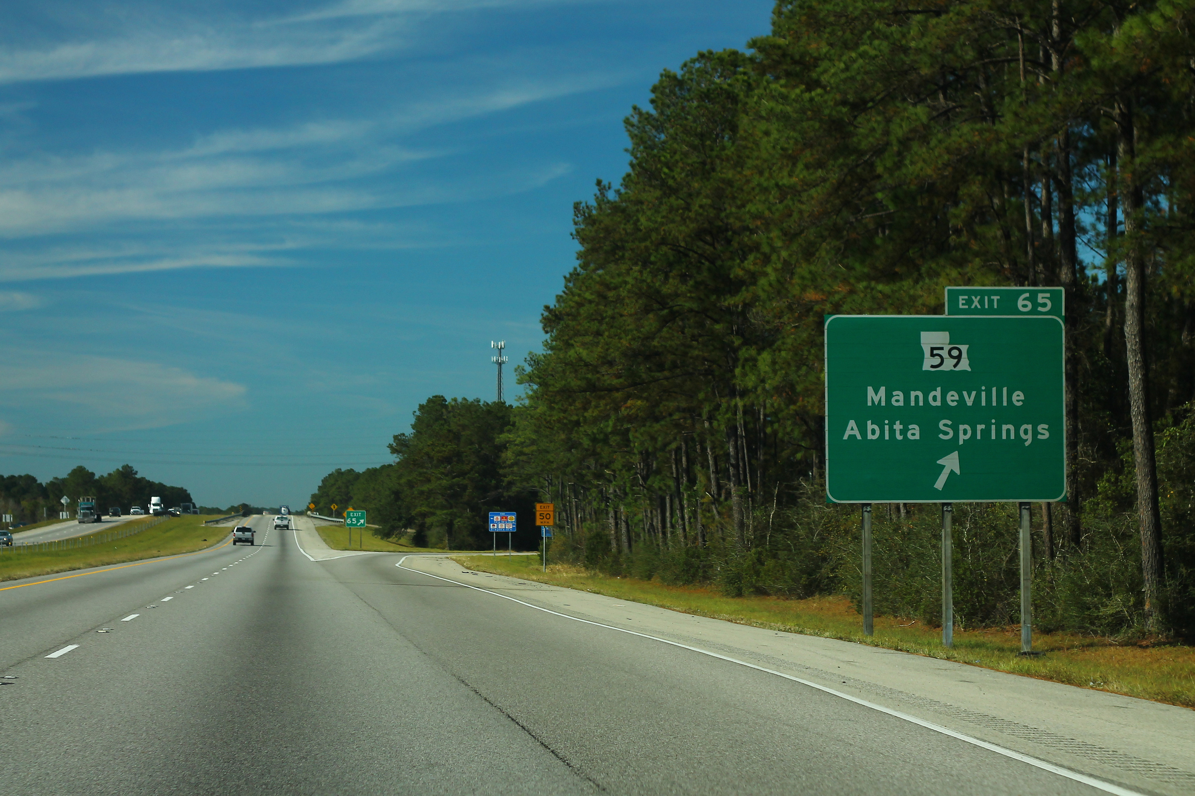 Int12wRoad-Exit65-LA59